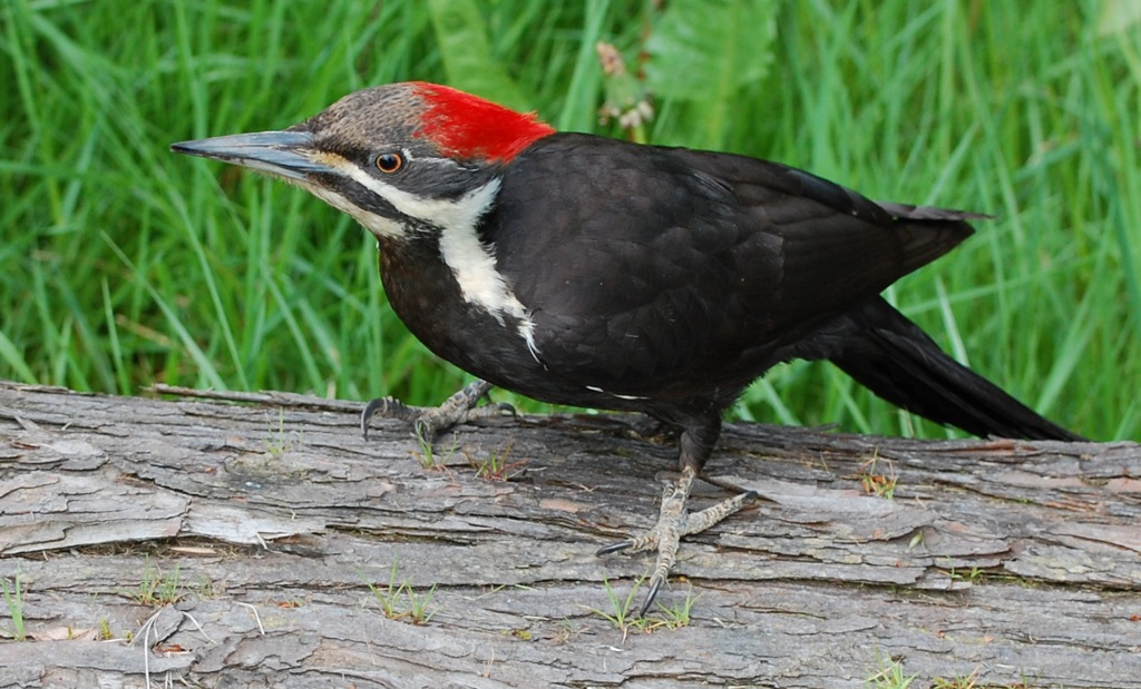 Pileated Woodpecker looking for ants on a felled tree.